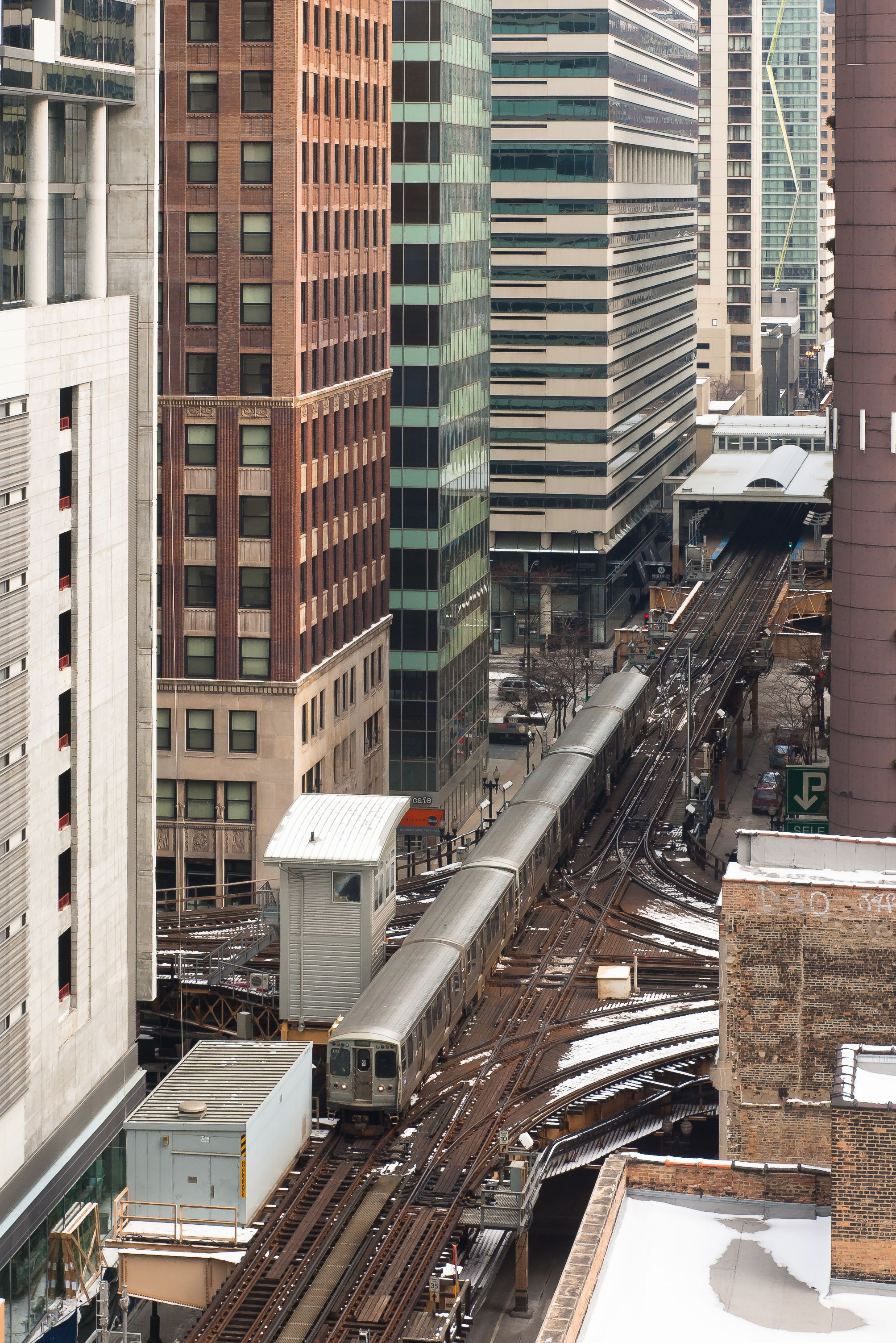 A west-bound Green Line train on the Chicago 'L' in the Loop district of Chicago, Illinois, USA